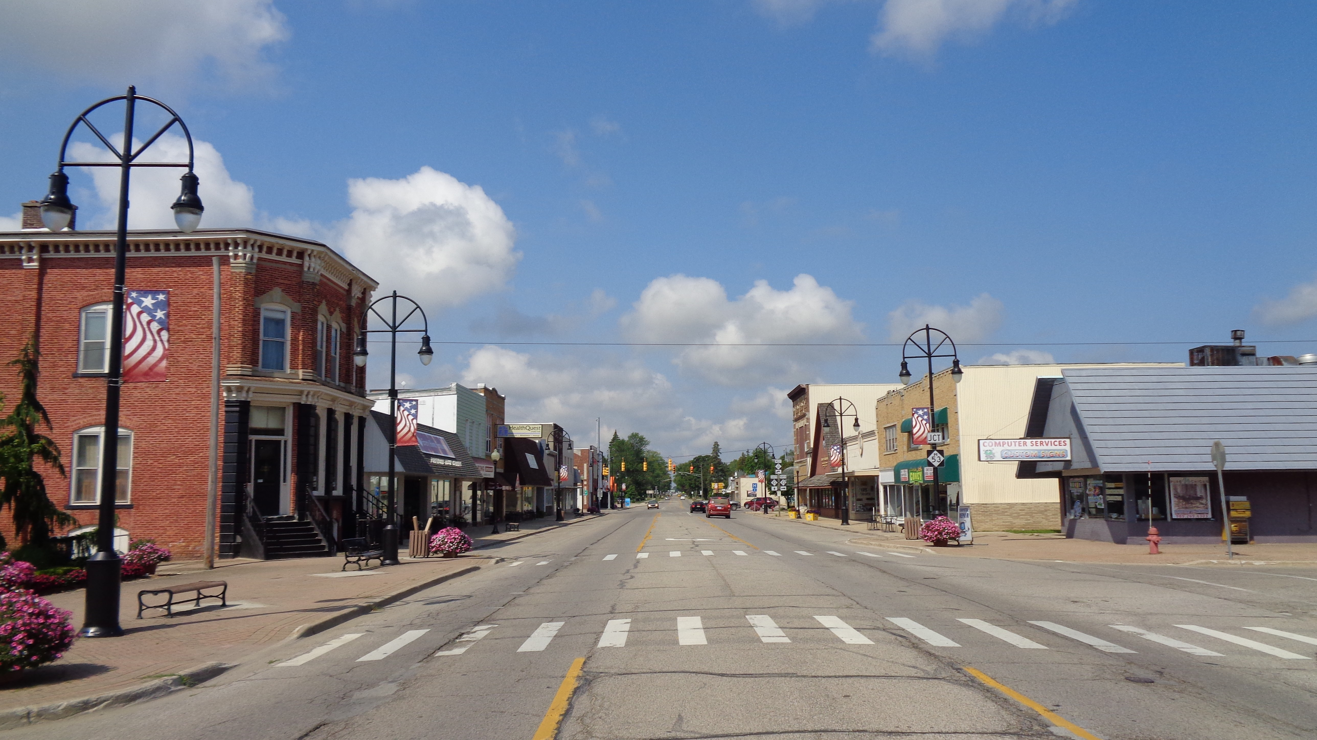 Depicted place: Bad Axe